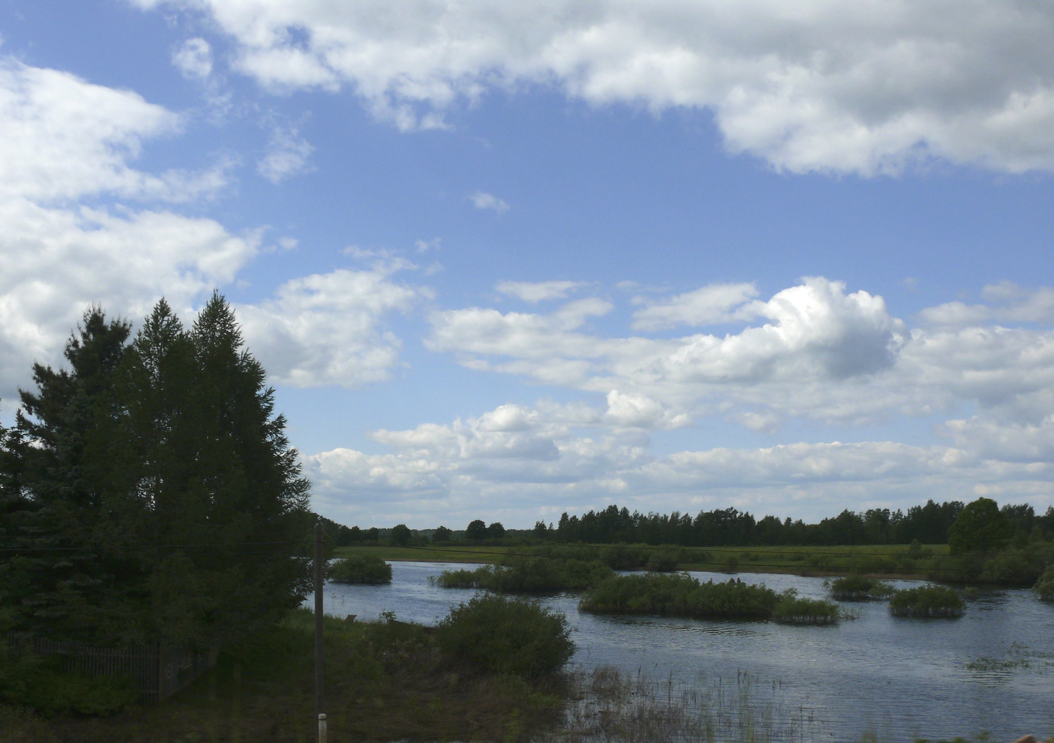 Vidogosh river in Novgorod oblast, Russia